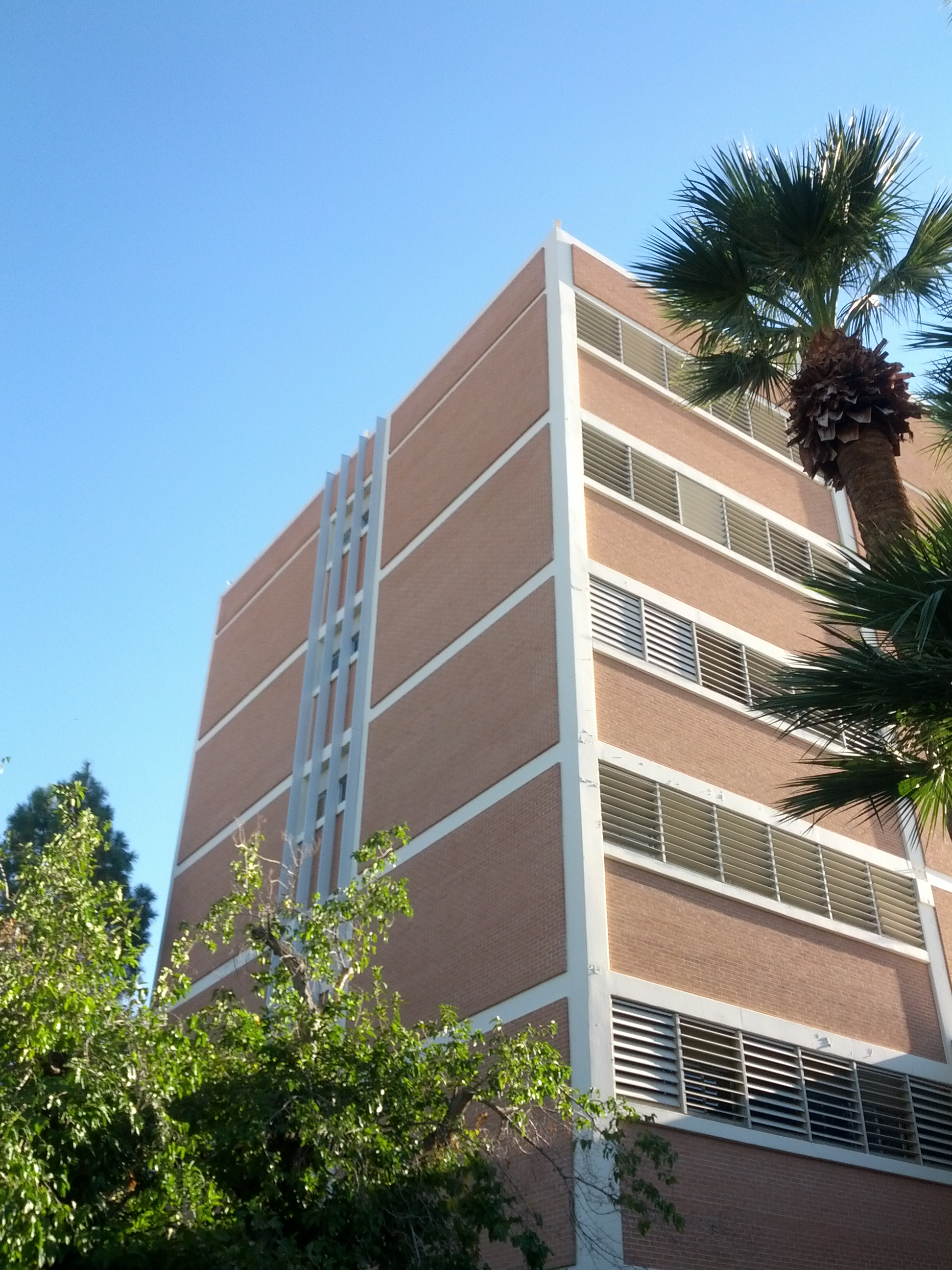 The G. Homer Durham Language and Literature Building at Arizona State University at the Tempe campus.